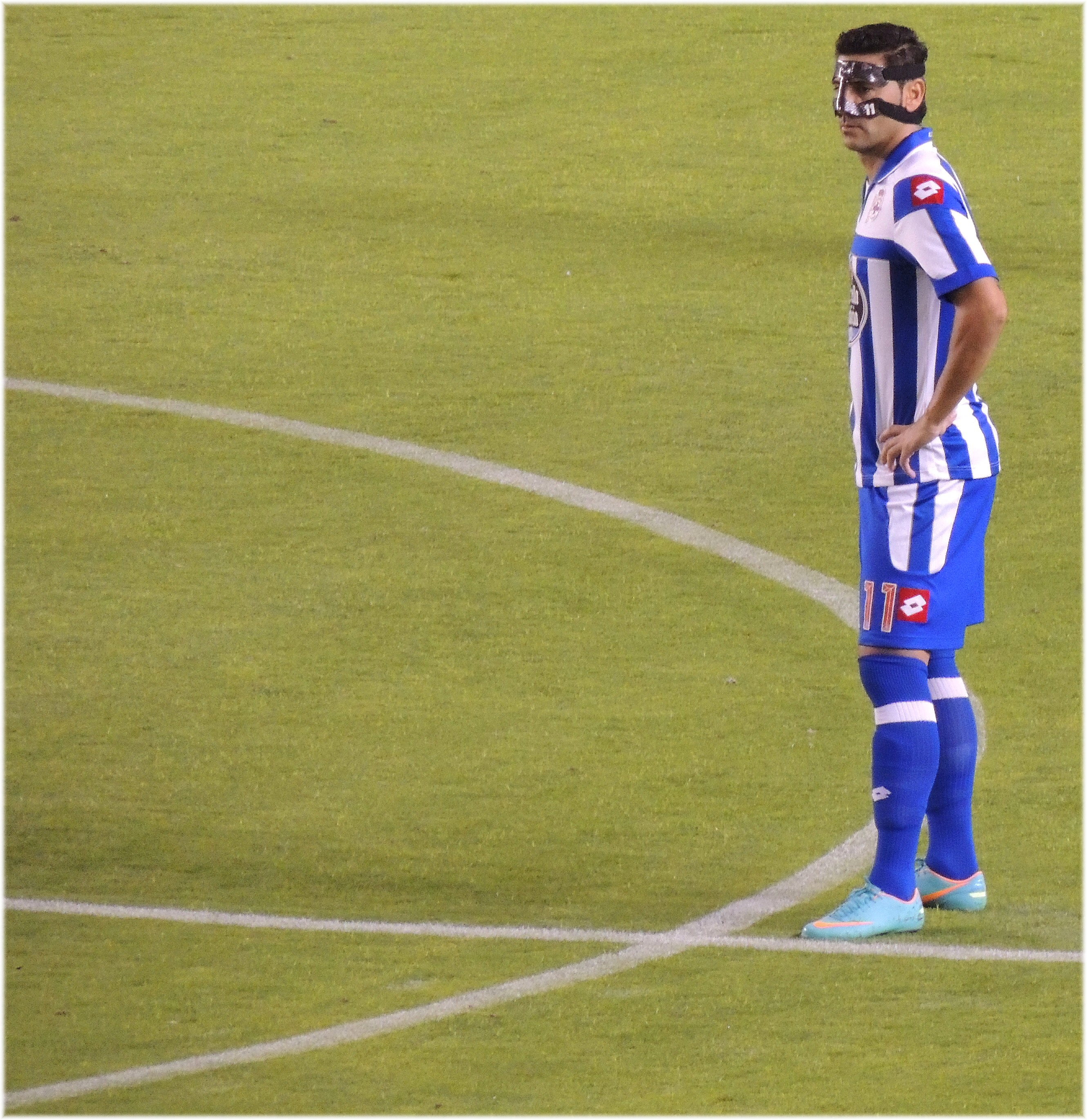 Riki playing for Deportivo La Coruna.